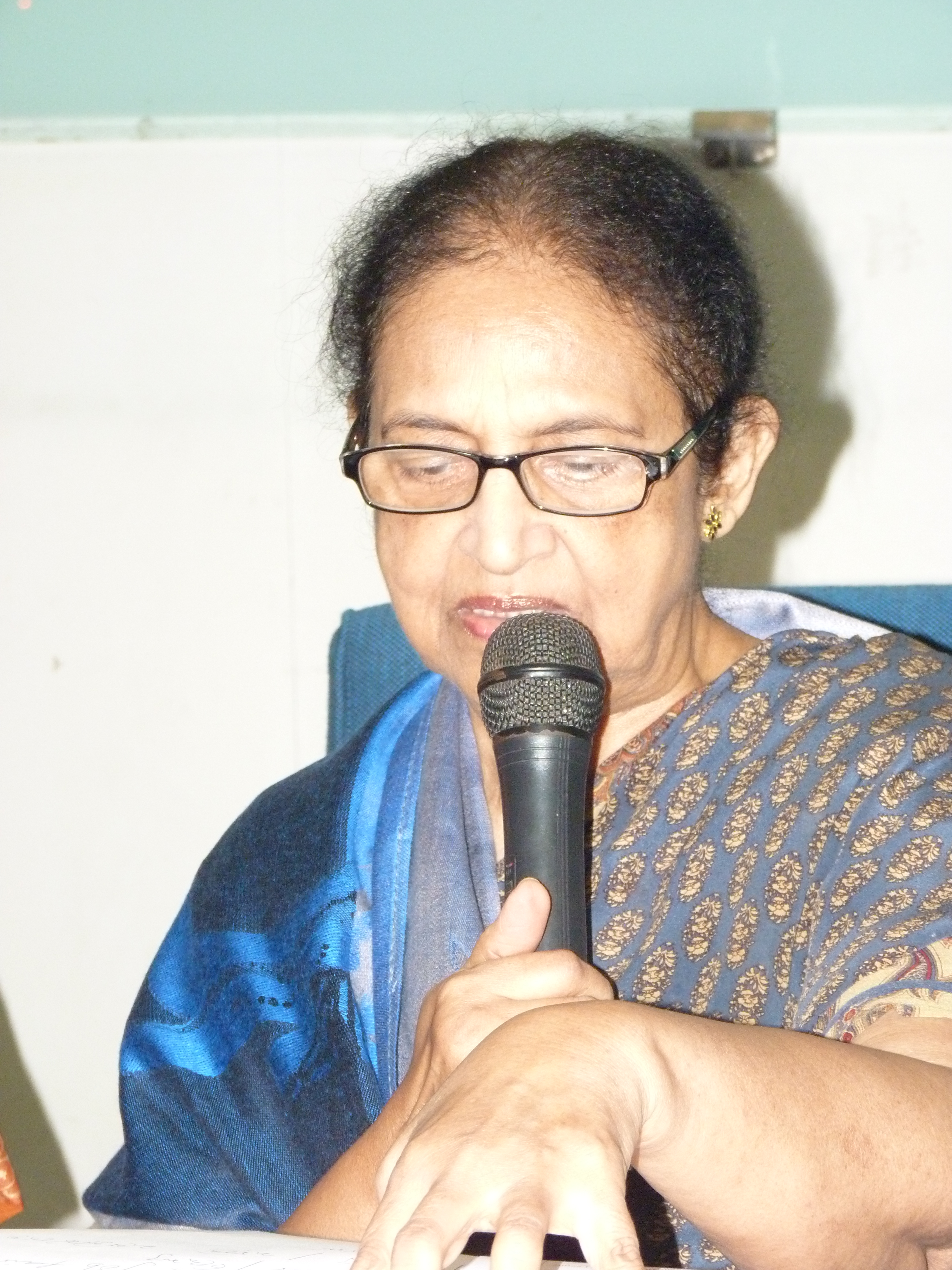 Najma Chowdhury speaking